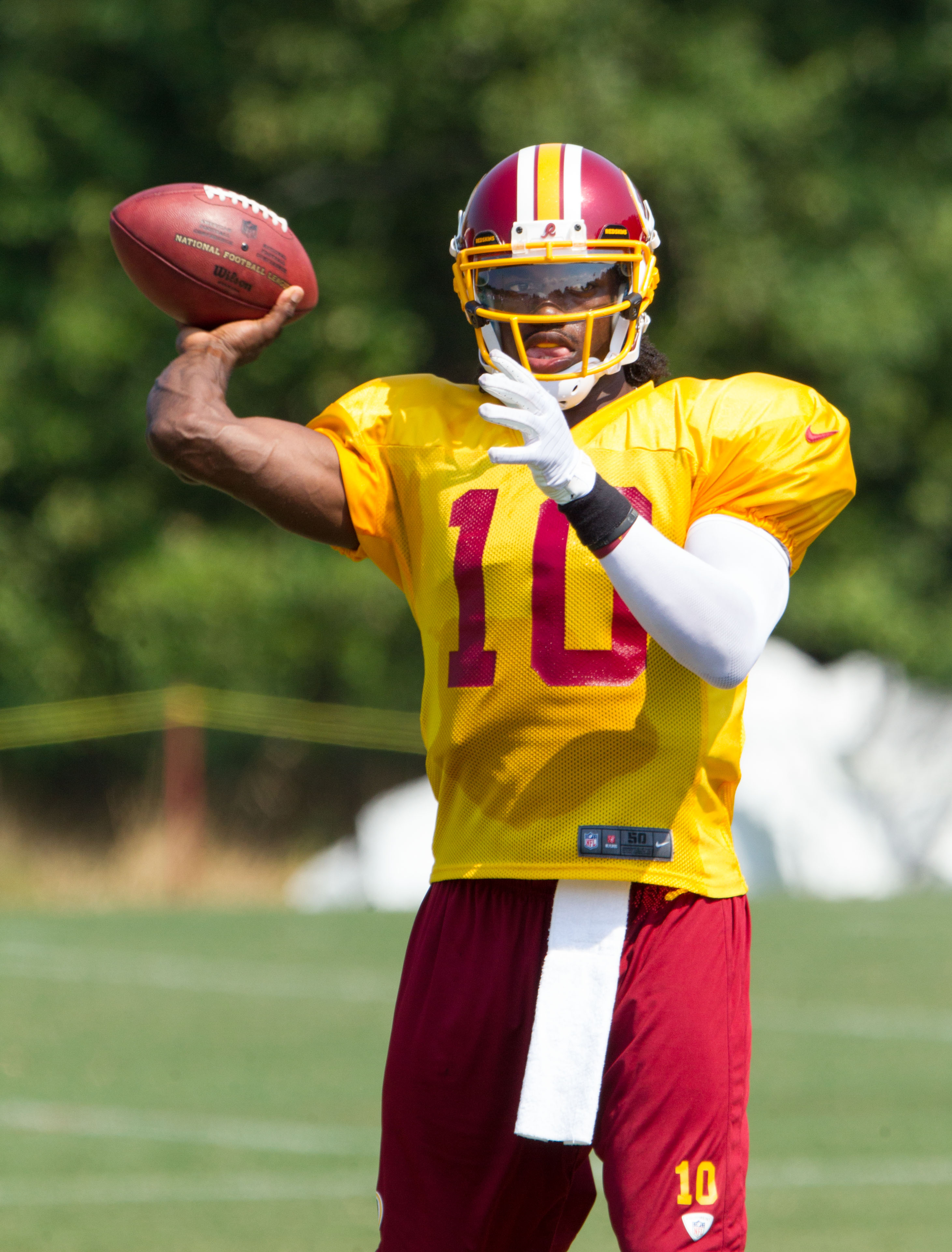 Robert Griffin III at Washington Redskins Training Camp August 1, 2012